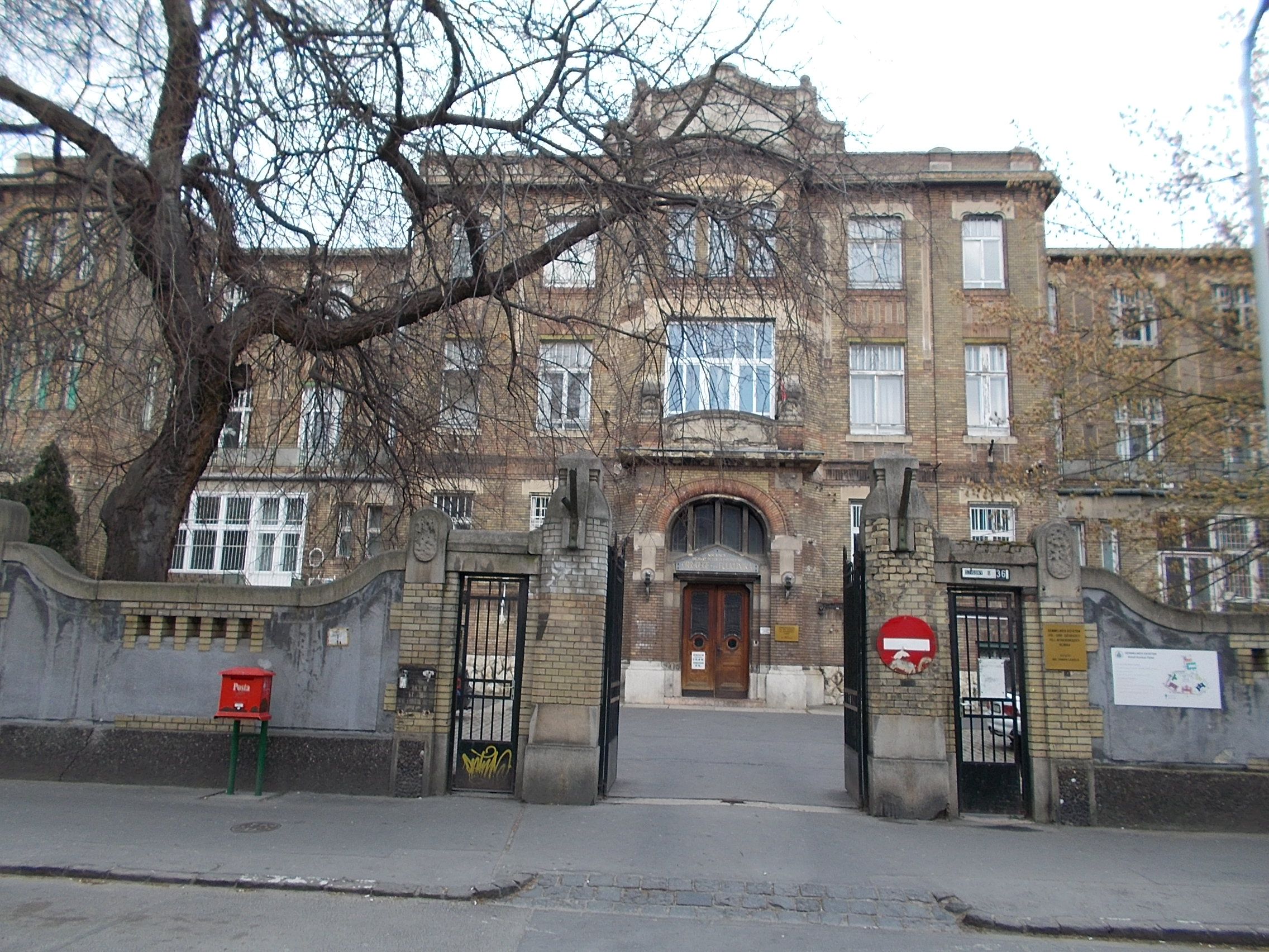 Department of Otorhinolaryngology, Head and Neck Surgery. - Semmelweis University. - 36 Szigony Street, Losonci neighbourhood, Budapest District VIII.